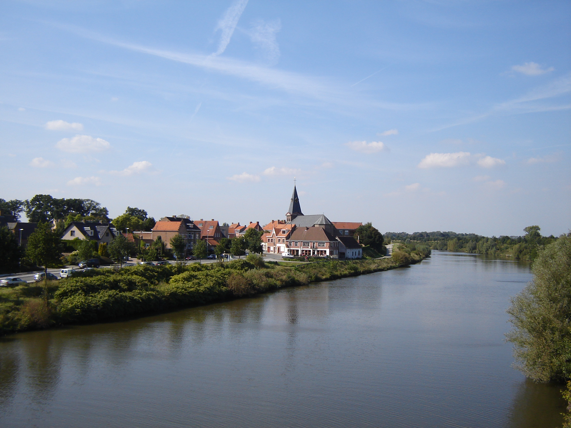 Sint-Joris and the Kanaal Gent-Brugge (Gent-Brugge Canal). Sint-Joris, Beernem, West Flanders, Belgium